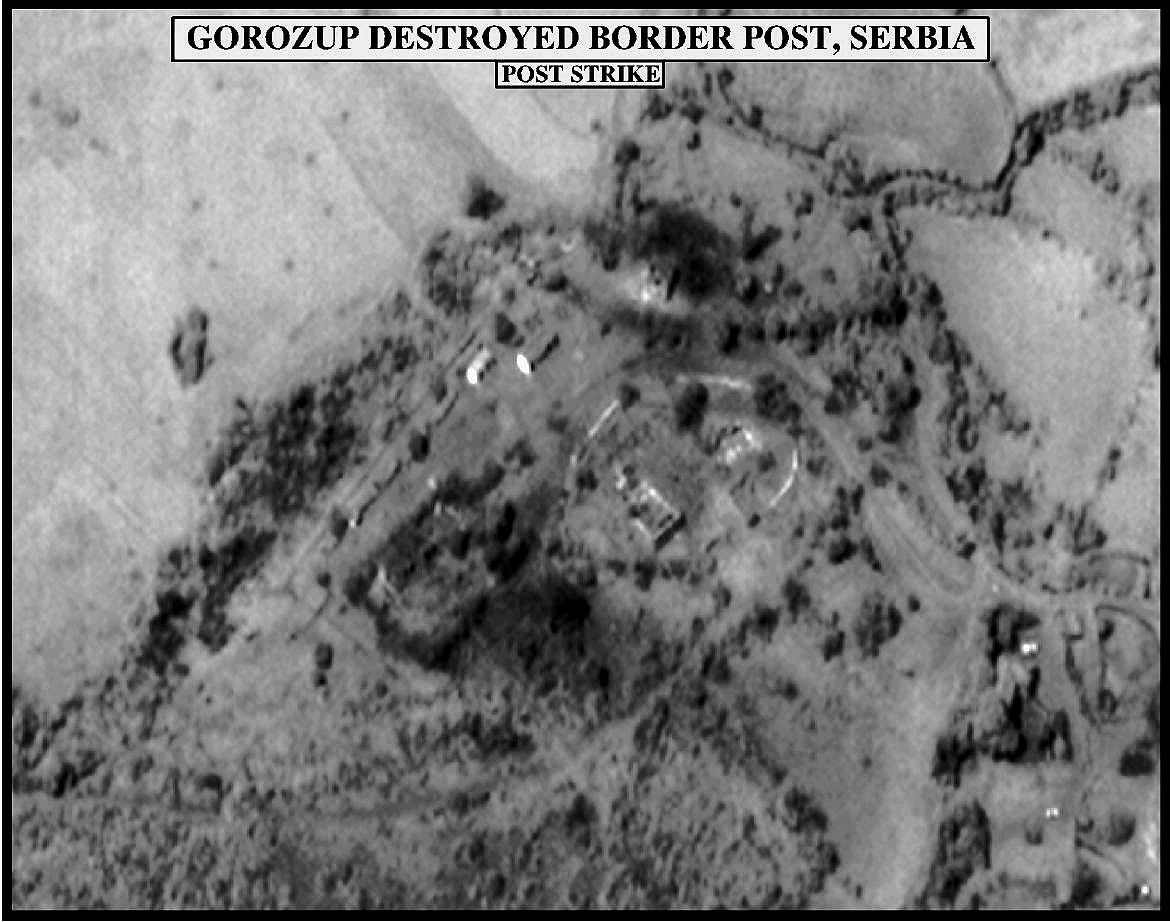 Post-strike bomb damage assessment photograph of the Gorozup Destroyed Border Post, Serbia, used by Joint Staff Vice Director for Strategic Plans and Policy Maj. Gen. Charles F. Wald, U.S. Air Force, during a press briefing on NATO Operation Allied Force in the Pentagon on May 6, 1999.